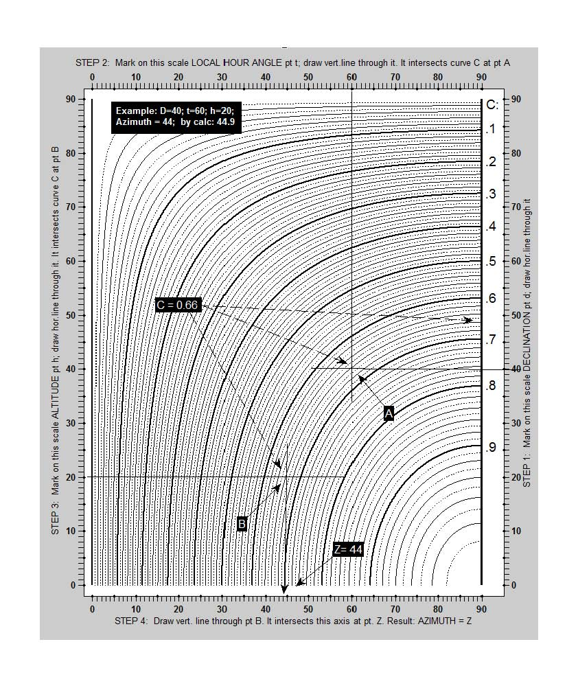 Azimuth diagram for longhand sight reduction by Hanno Ix